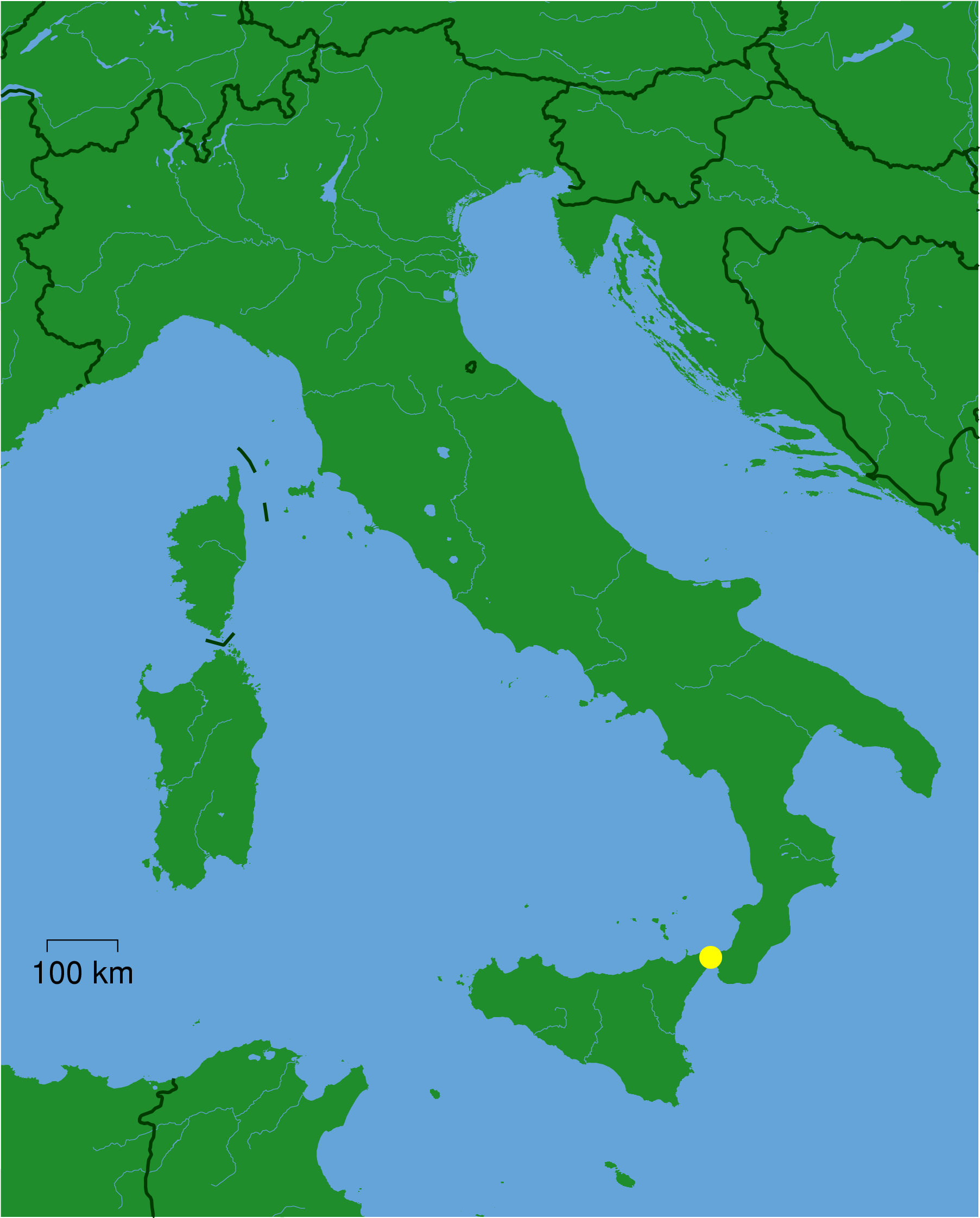 Locator map for Messina.